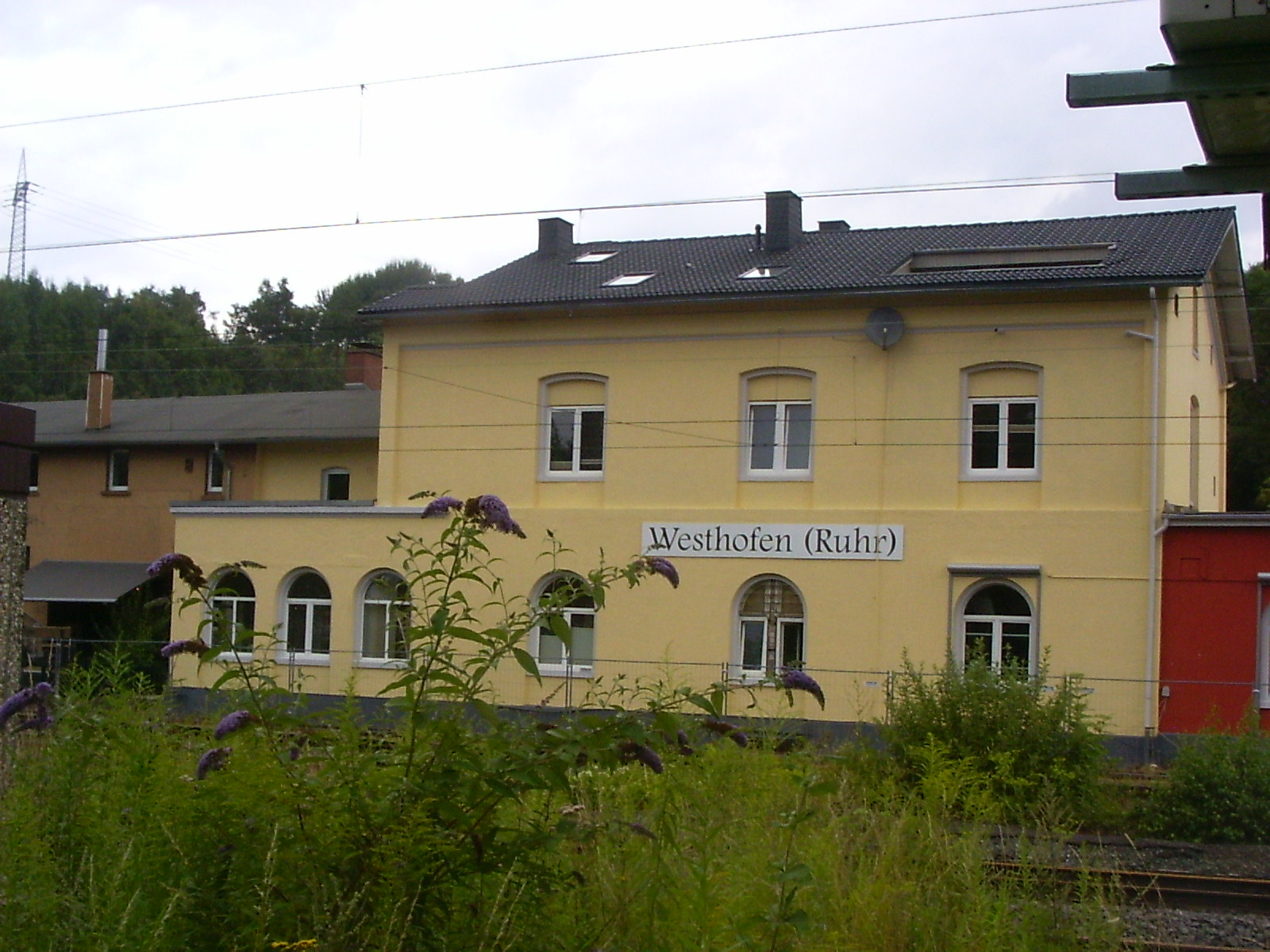 Westhofen (Ruhr) train station